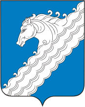 Belorechensky rayon (Krasnodar krai), coat of arms